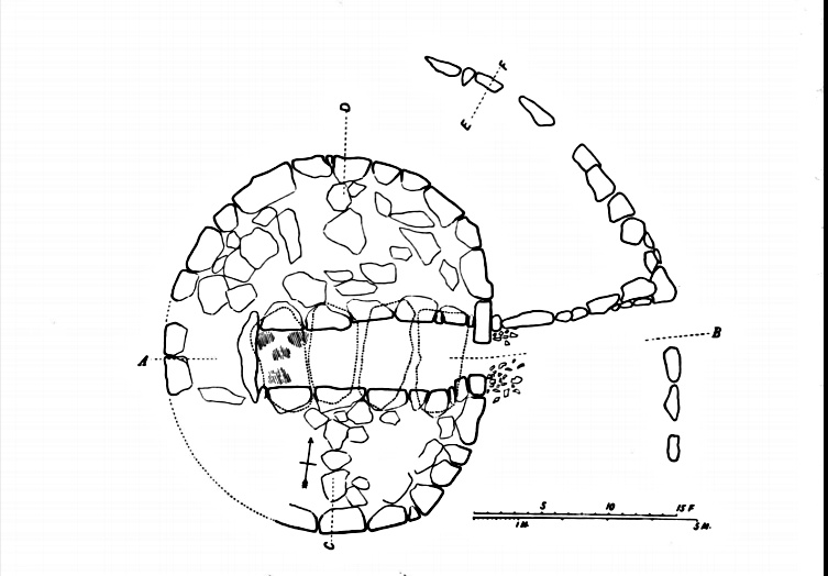 Bant's Cairn, St. Mary's Island, Isles of Scilly. Drawing by archaeologist, George Bonsor, 1900